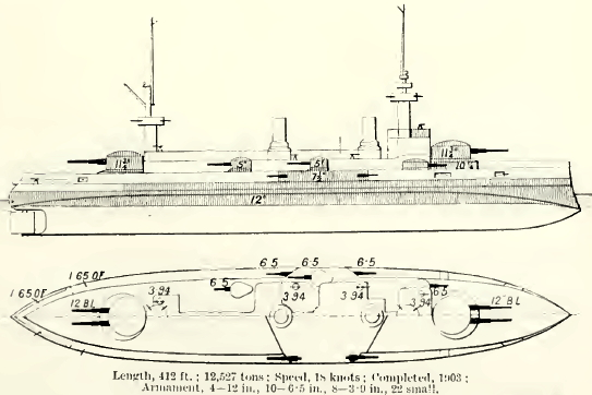 Plan and right elevation view of the French battleship Suffren